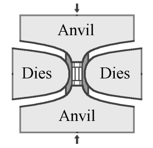 Belt Type Apparatus for Hydrostatic Synthesis